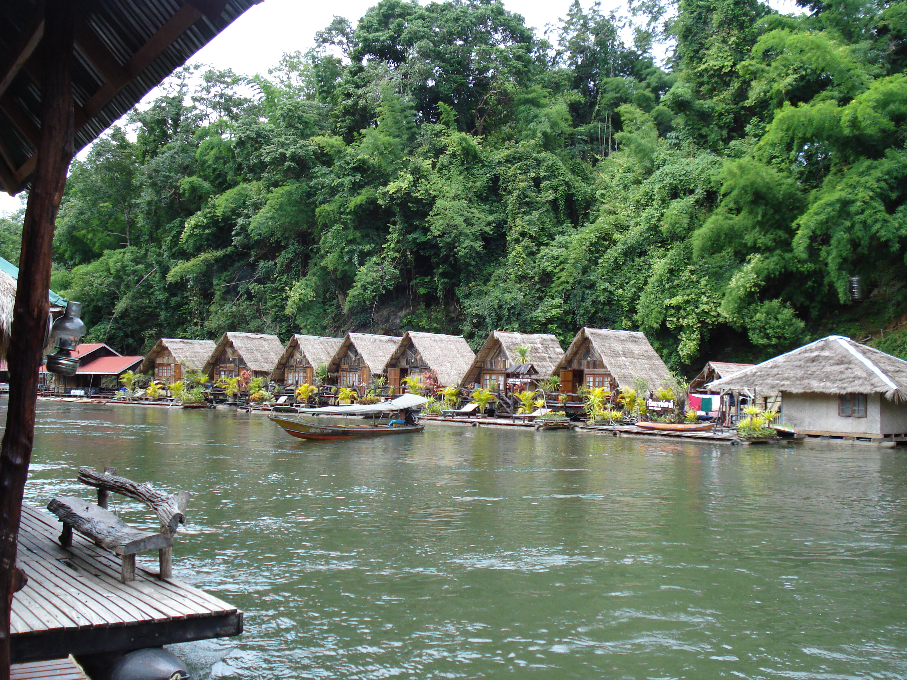 Houseboats in Sai Yok National Park